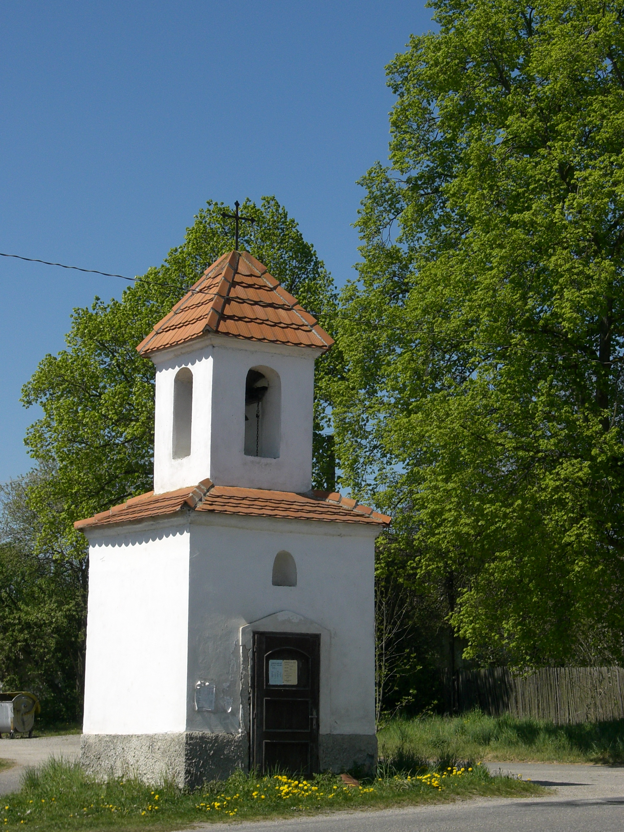 Dolní Novosedly village in Písek district, Czech Republic. Chapel